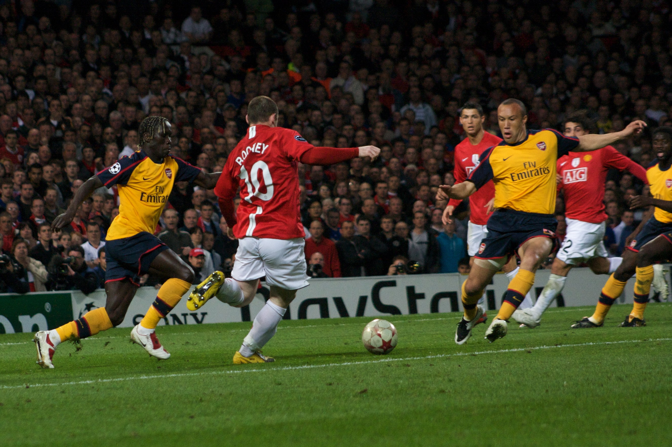 Wayne Rooney and Mikael Silvestre compete for the ball during the UEFA Champions League 2008-09 semi-final first leg